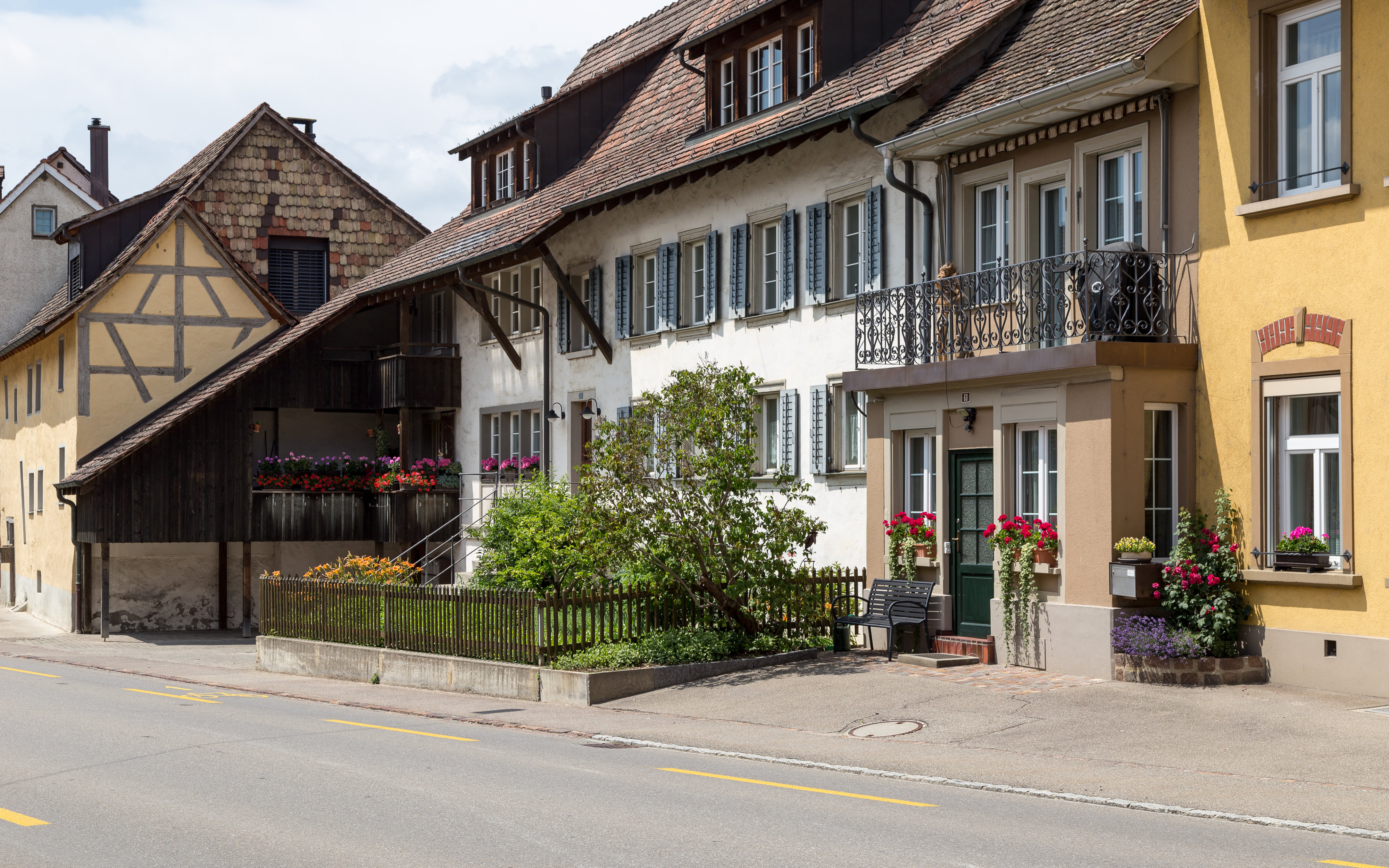 Main street in the village of Löhningen, canton of Schaffhausen, Switzerland